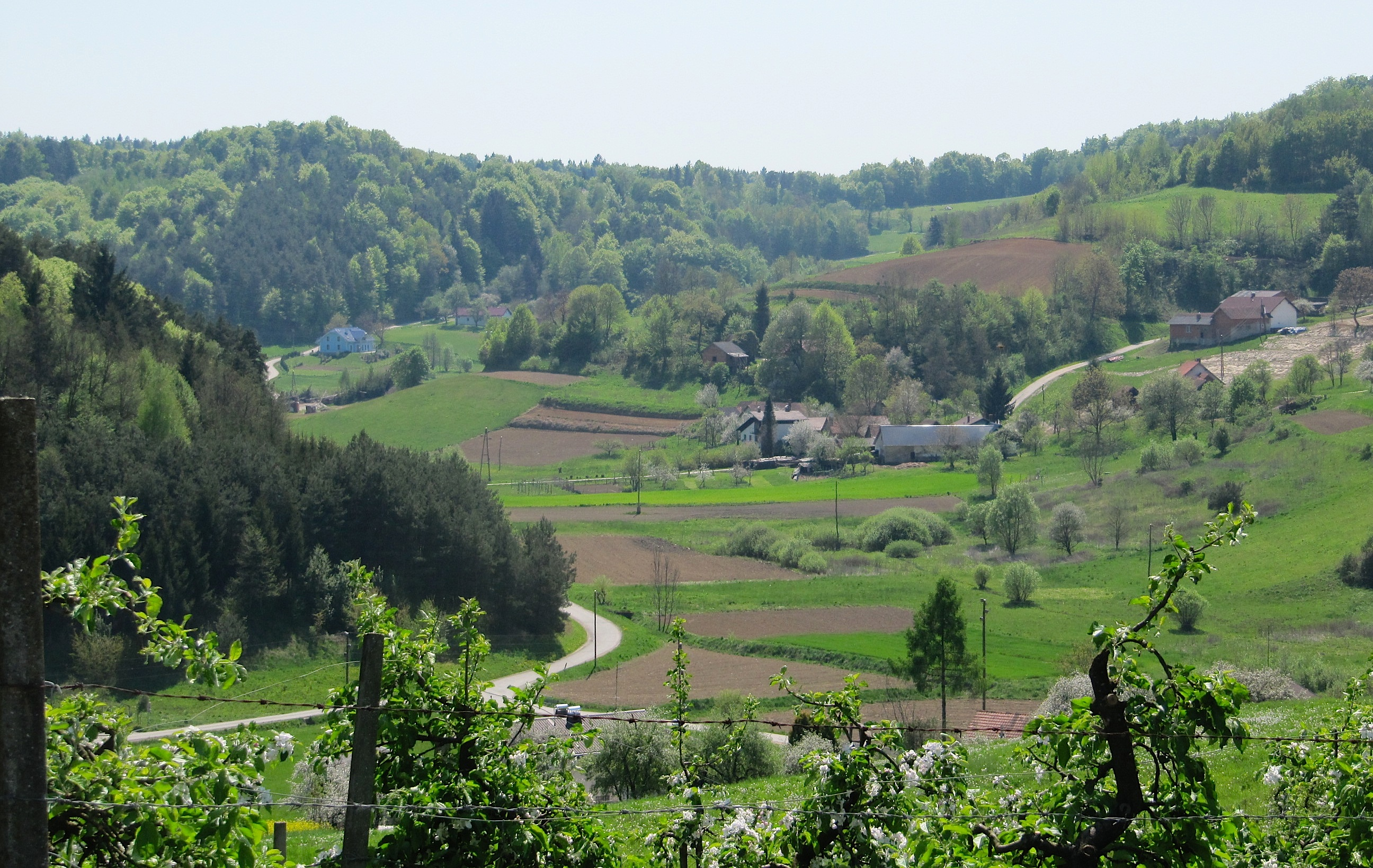 Dolič, village in Slovenia